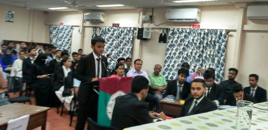 Law Society conducts Intra Departmental Moot Court Competitions